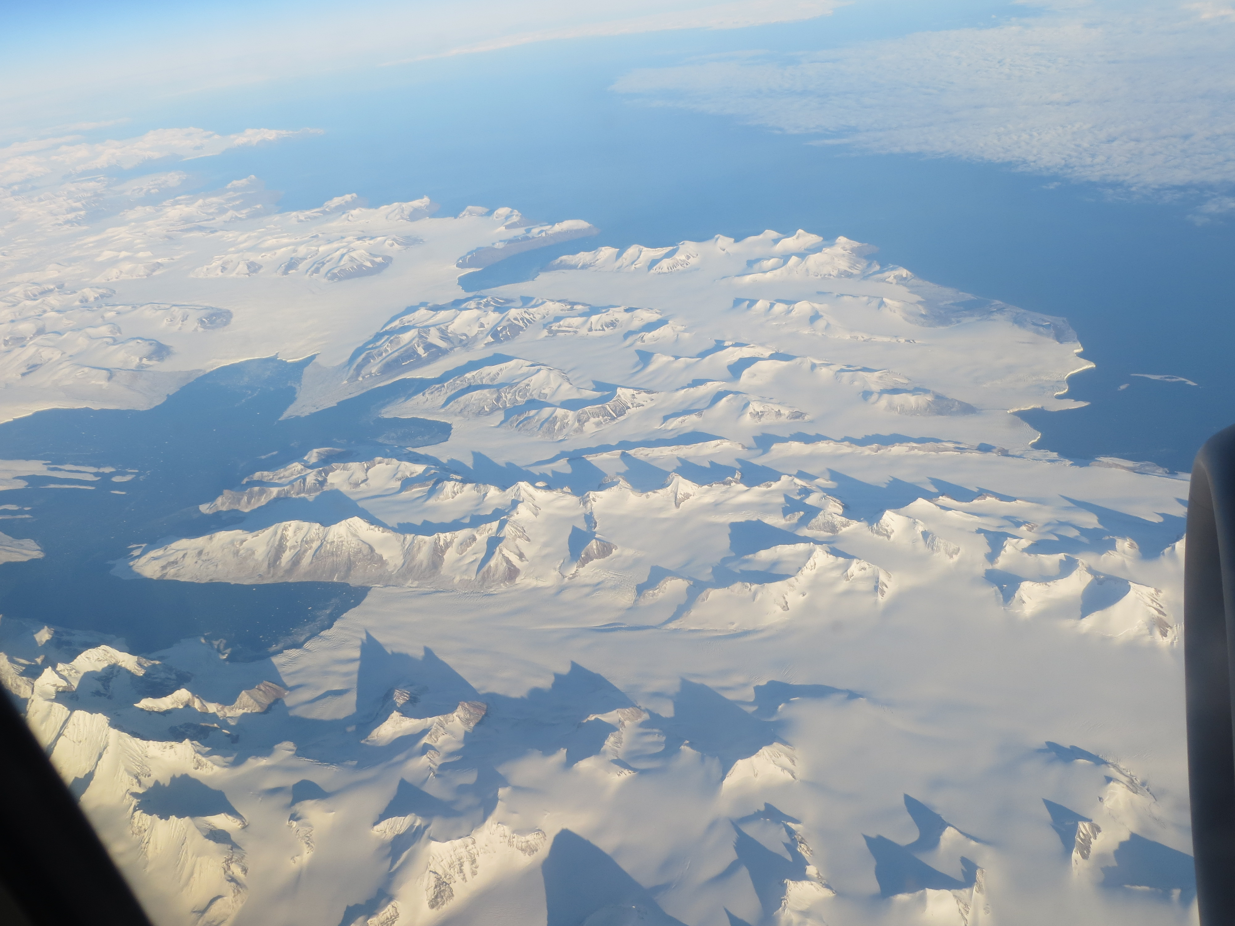 Aerial photo, from the west towards east, of the Sørkapp Land southernmost parts of Spitsbergen, Svalbard.